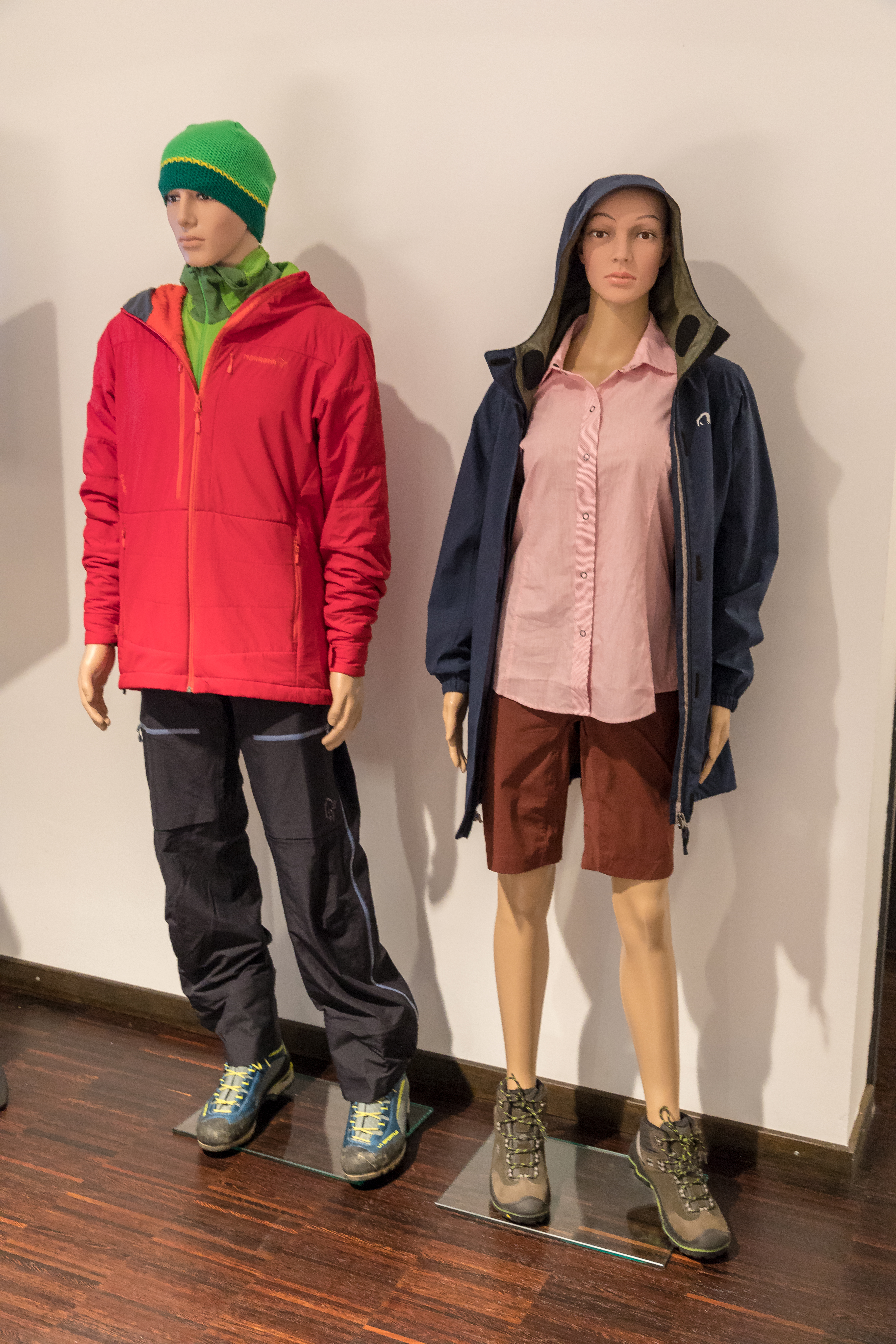 OutDoor 2018